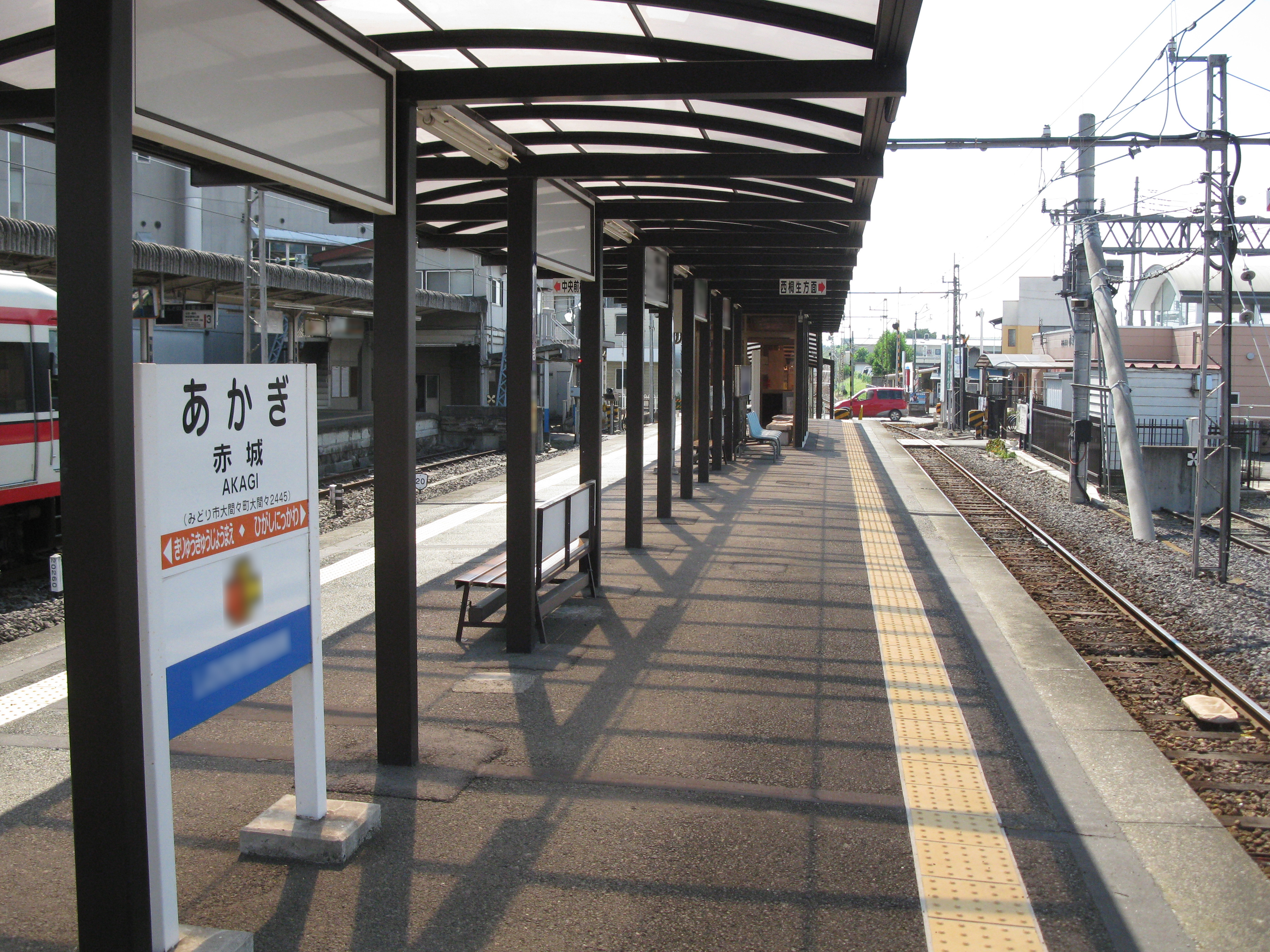 The platform at Akagi Station on the Jōmō Electric Railway Company Jōmō Line in Midori city, Gumma prefecture, Japan